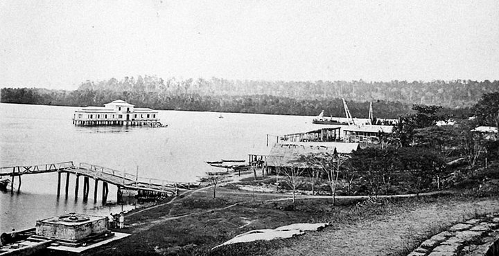 Port of Isabela, Basilan Island, Philippines. Photo was taken in 1901.